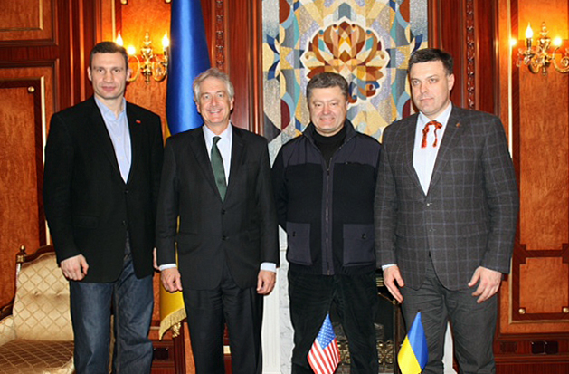 Deputy Secretary of State Bill Burns meets with key political leaders in Kyiv, Ukraine, on February 25, 2014. [State Department photo/ Public Domain]